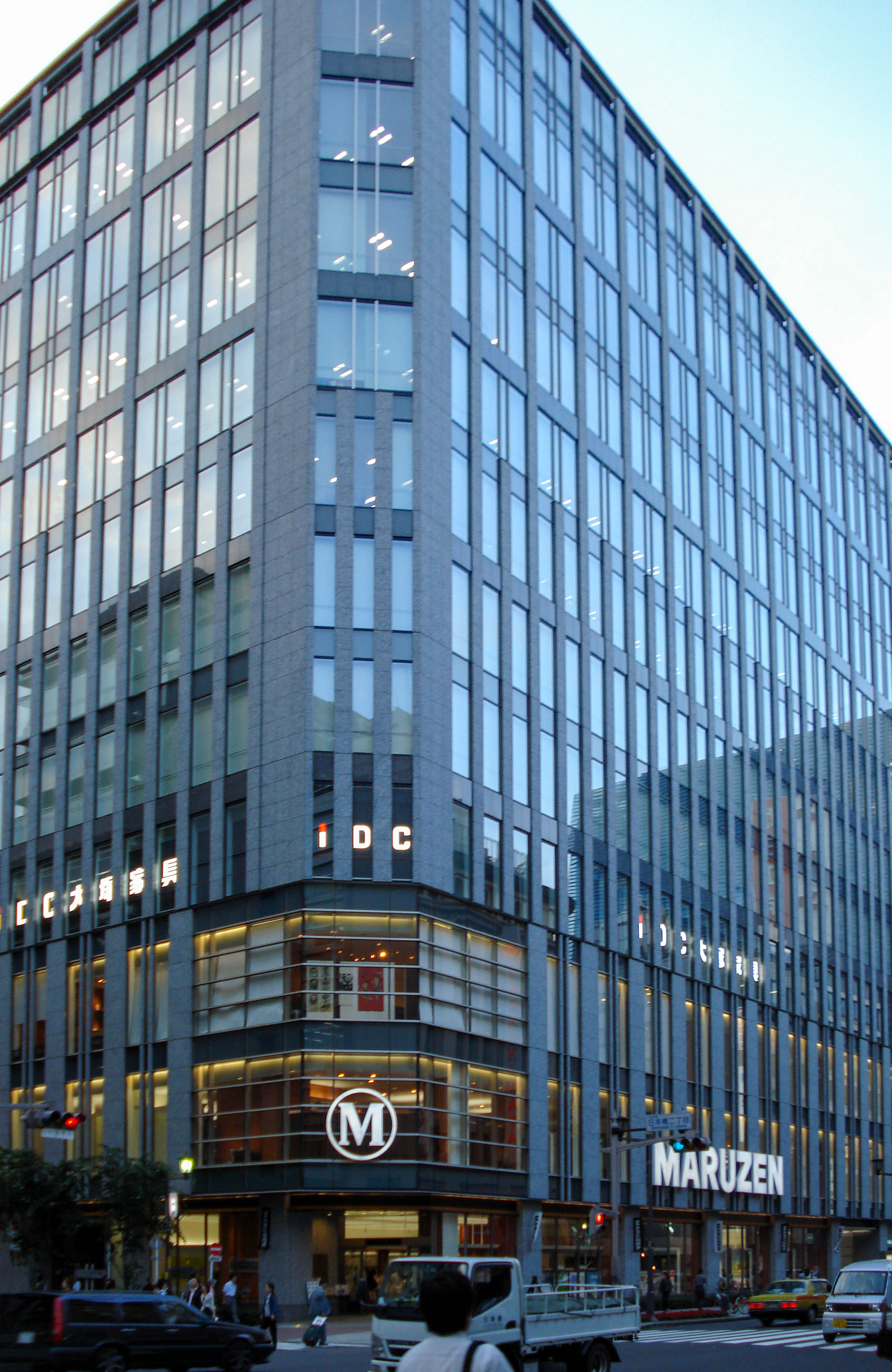 Maruzen in Tokyo